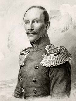 Prince Albert (in Germany: Albrecht) (4 October 1809, Königsberg – 14 October 1872, Berlin), Prussian colonel general, fourth son of King Frederick William III of Prussia with Queen Luise